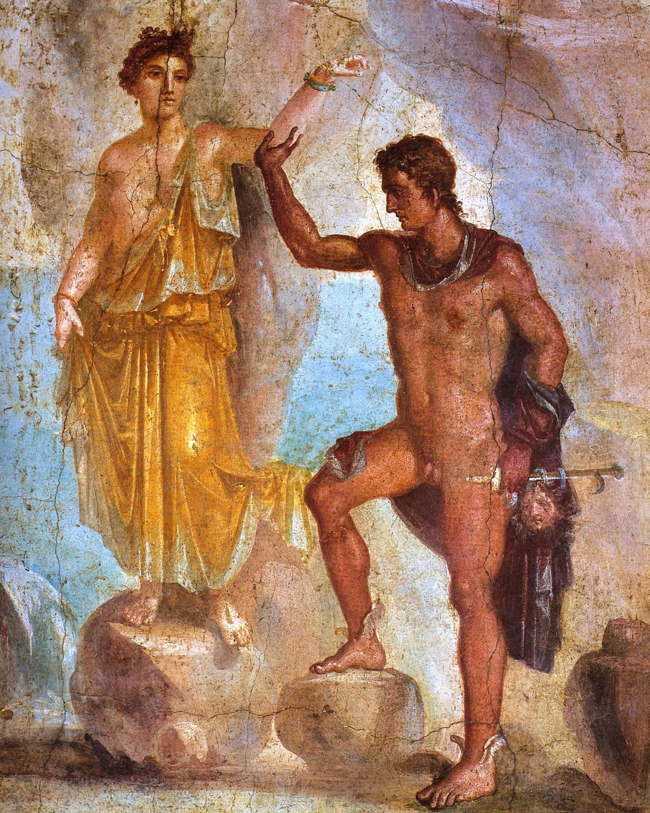 Wall painting from Pompeii found in the "Casa Dei Dioscuri" (VI,9,6) representing Perseus and Andromeda. Perseus is shown advancing to support Andromeda, who is fastened to a sea-cliff by one hand; the body of the sea-monster which Perseus has just killed is at lower left.